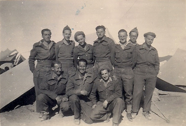 Moshe Jakobovits 1949 Jordanian Imprisonment